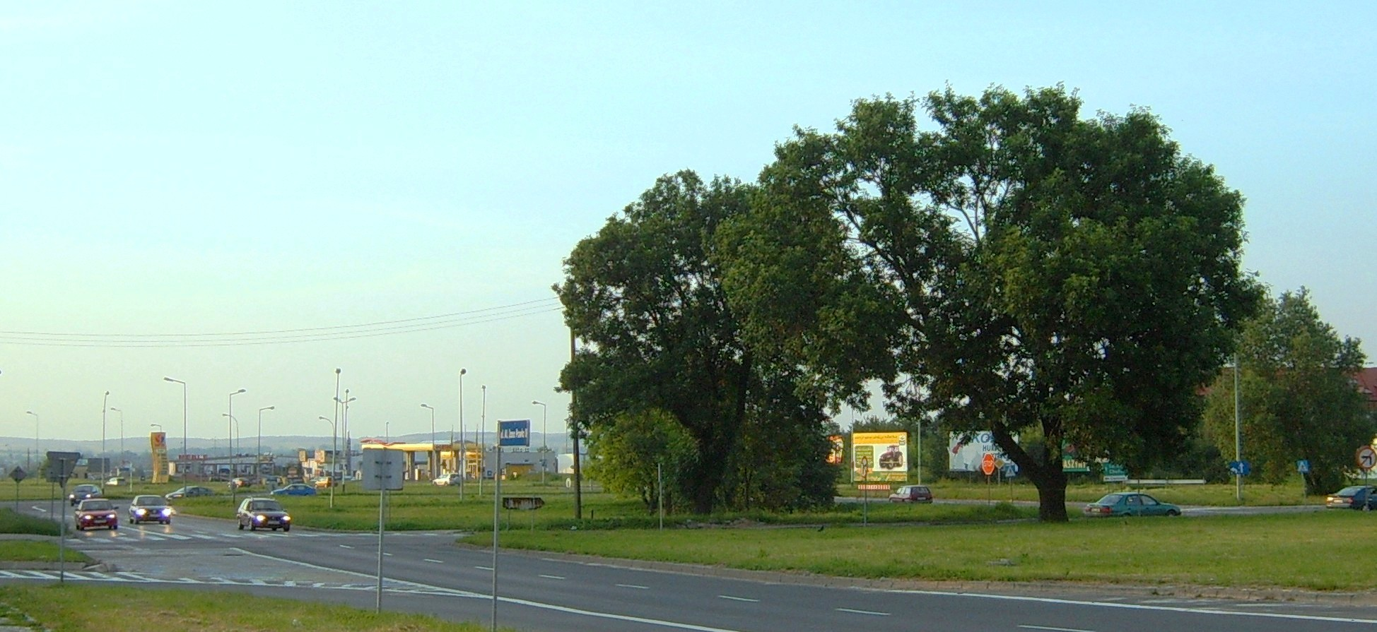 Honourable Blood Givers Roundabout in Zamość before repair, Poland